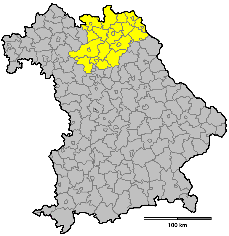 locator map of the former (1970) districts (Landkreise) in Bavaria, Germany